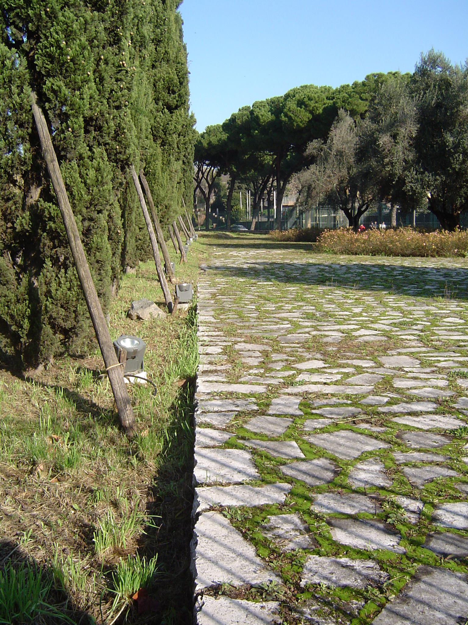 Location of the former Septizonium near the Palatin Hill in Rome.